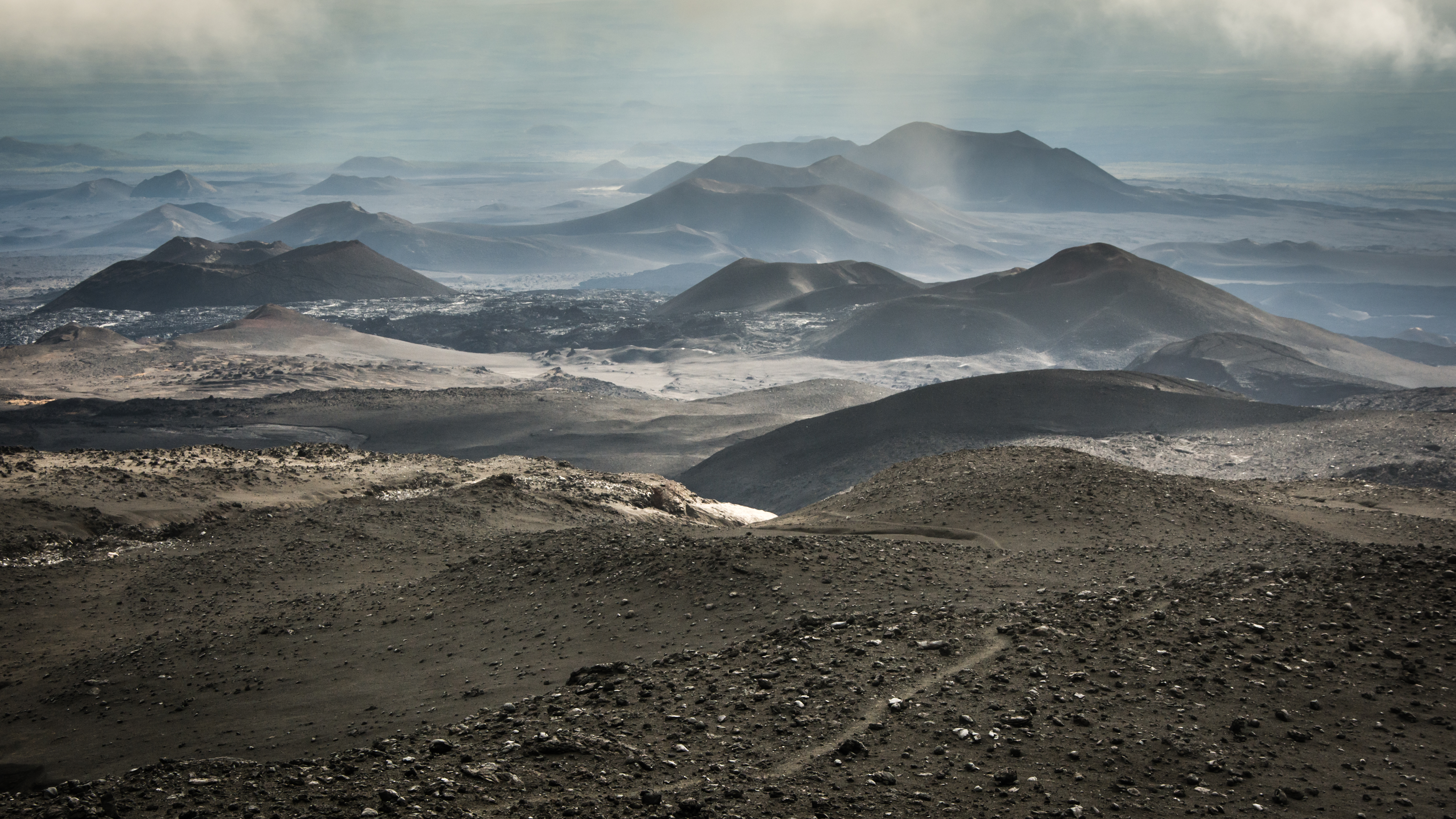 Cinder cones at the foot of volcano Tolbachik (Kamchatka, Russia)